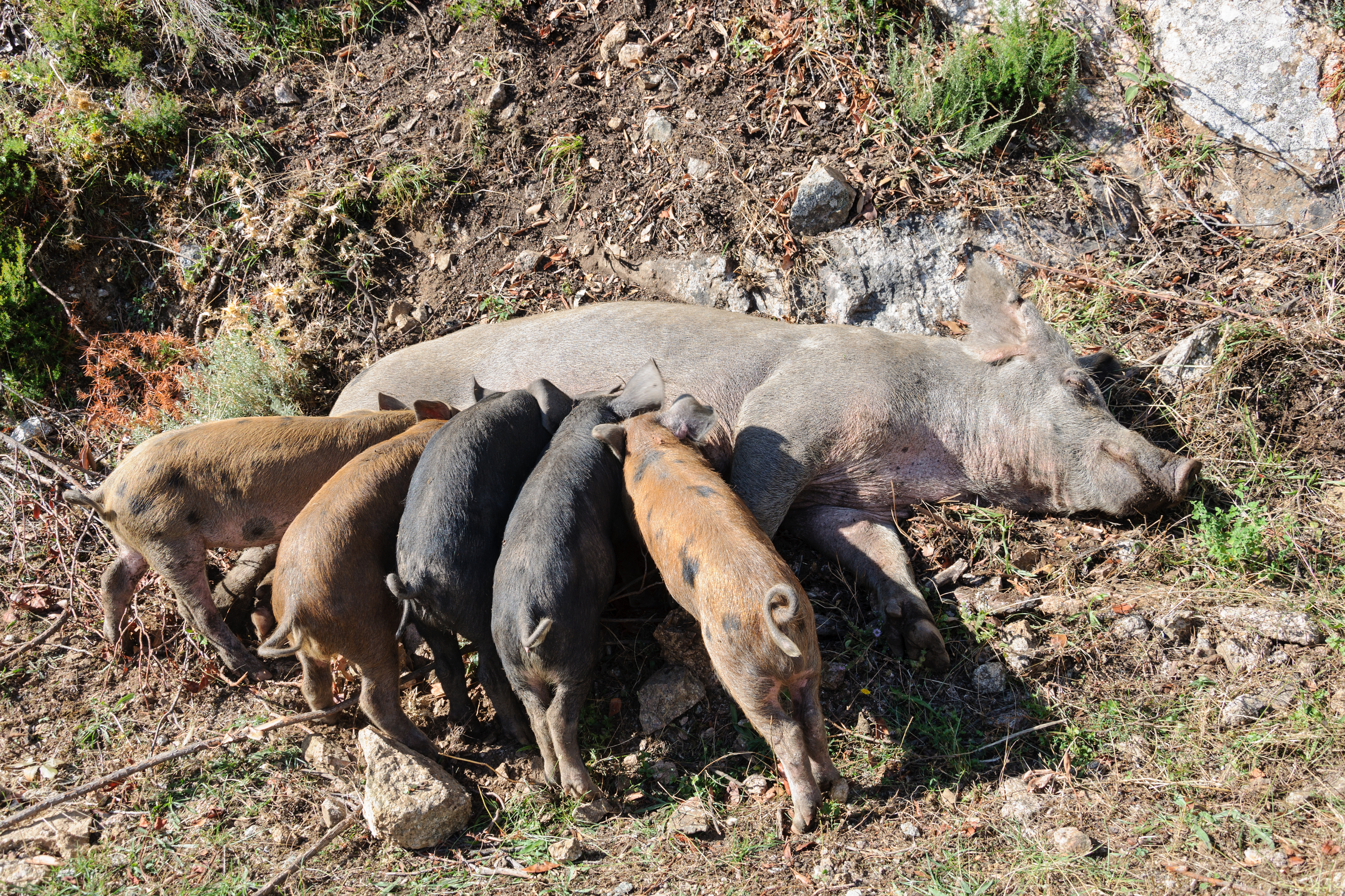 Sow (Sus scrofa domesticus ♀) suckling her piglets in the open air in Southern Corsica